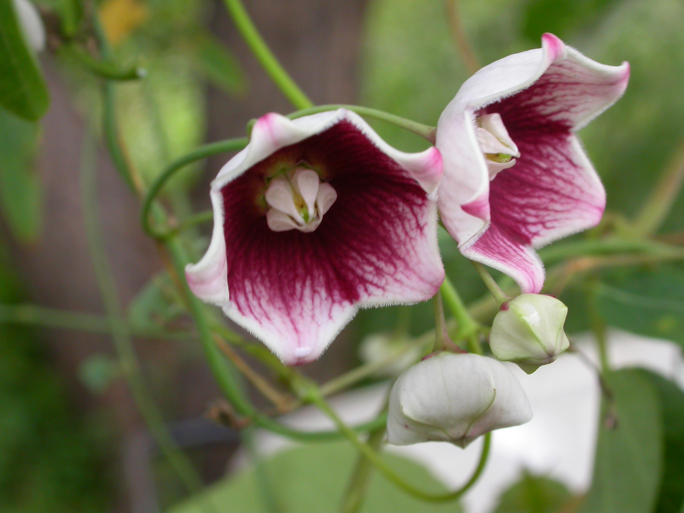 flowers of Oxystelma bornouense. Kaboré-Tambi National Park, Burkina Faso.